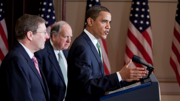 President Barack Obama with Senate Budget Committee Chairman Kent Conrad (left) and House Budget Committee Chairman John Spratt.